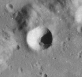 Brewster, on the moon.